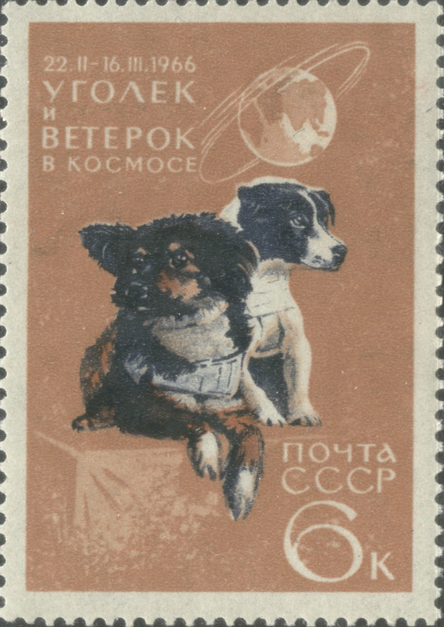 Ugolyok and Veterok, dogs aboard Soviet space probe Kosmos 110 (1966)